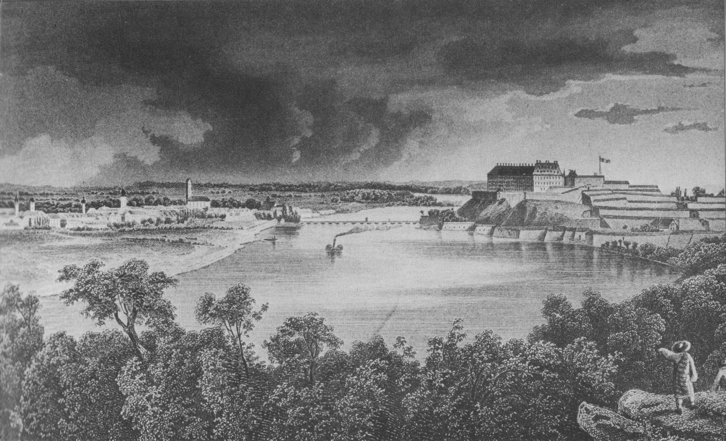 Novi Sad and Petrovaradin Fortress in the first half of the 19th century.